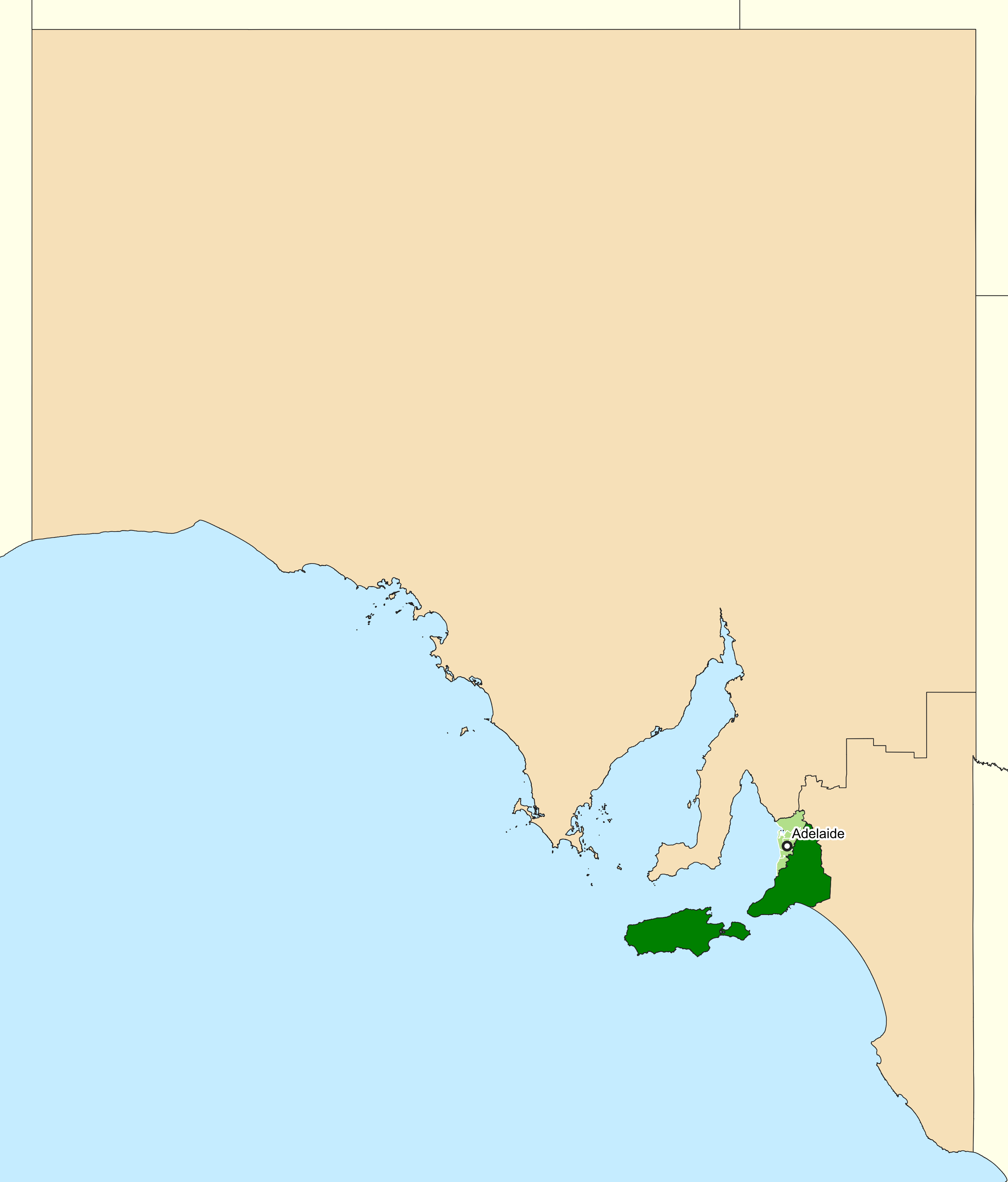 Location of the Australian federal electoral division of Mayo (dark green) in South Australia as of the 2019 Australian federal election. Incorporates or developed using Administrative Boundaries ©PSMA Australia Limited licensed by the Commonwealth of Australia under Creative Commons Attribution 4.0 International licence (CC BY 4.0).